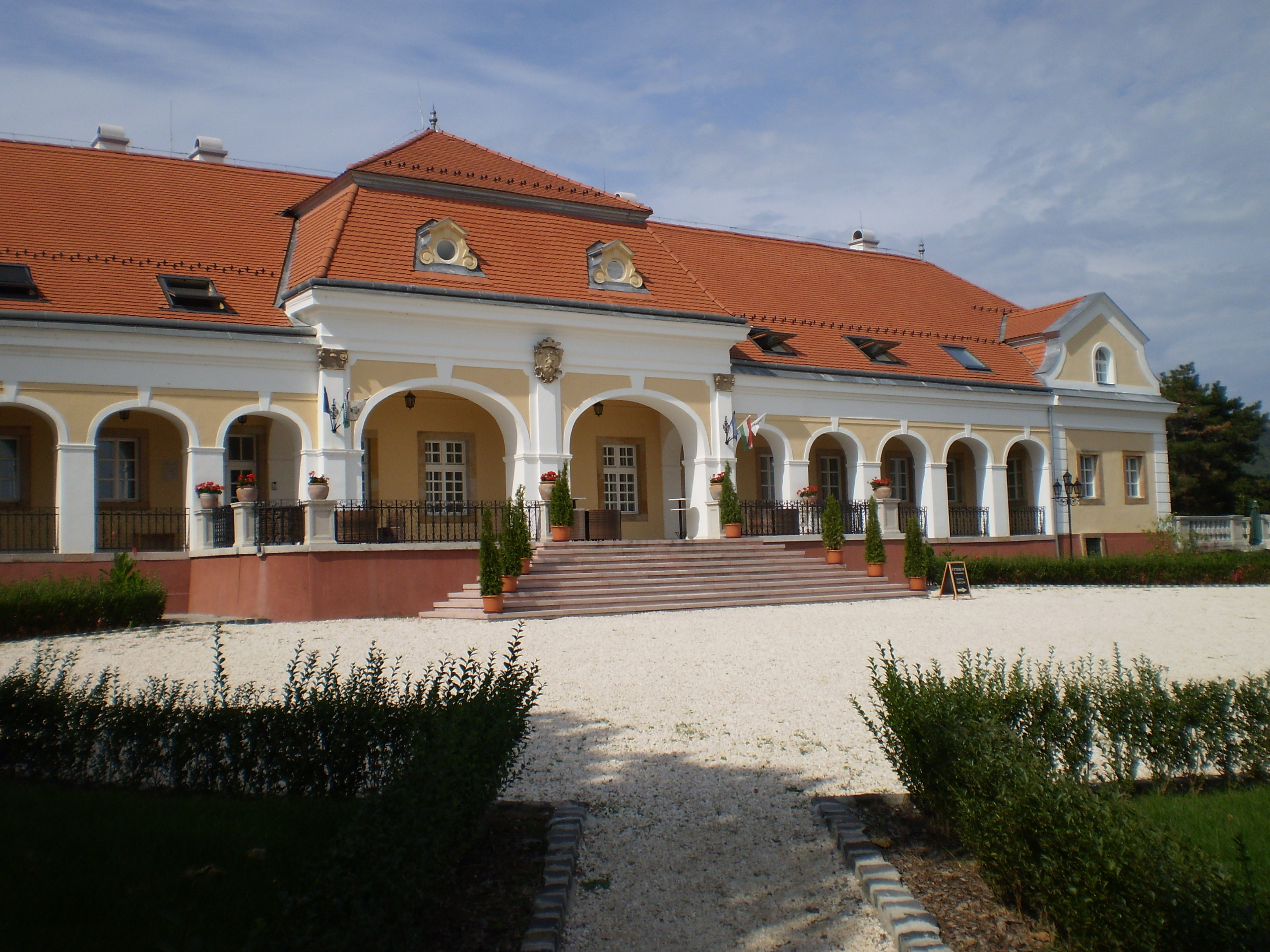 Teleki-Wattay Mansion in Pomáz, Hungary